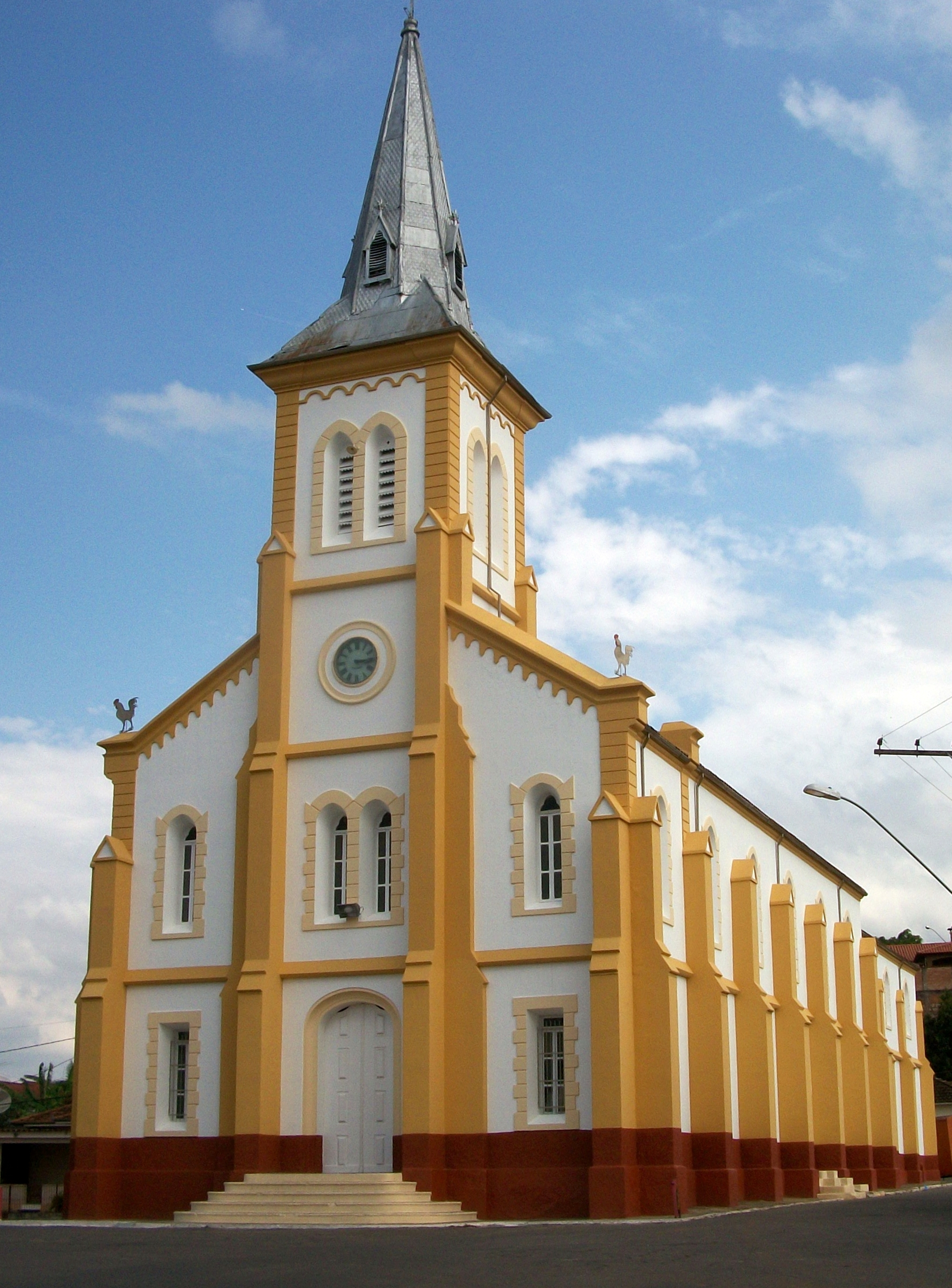 Our Lady of the Rosary Church in São Gonçalo do Sapucaí, Brazil